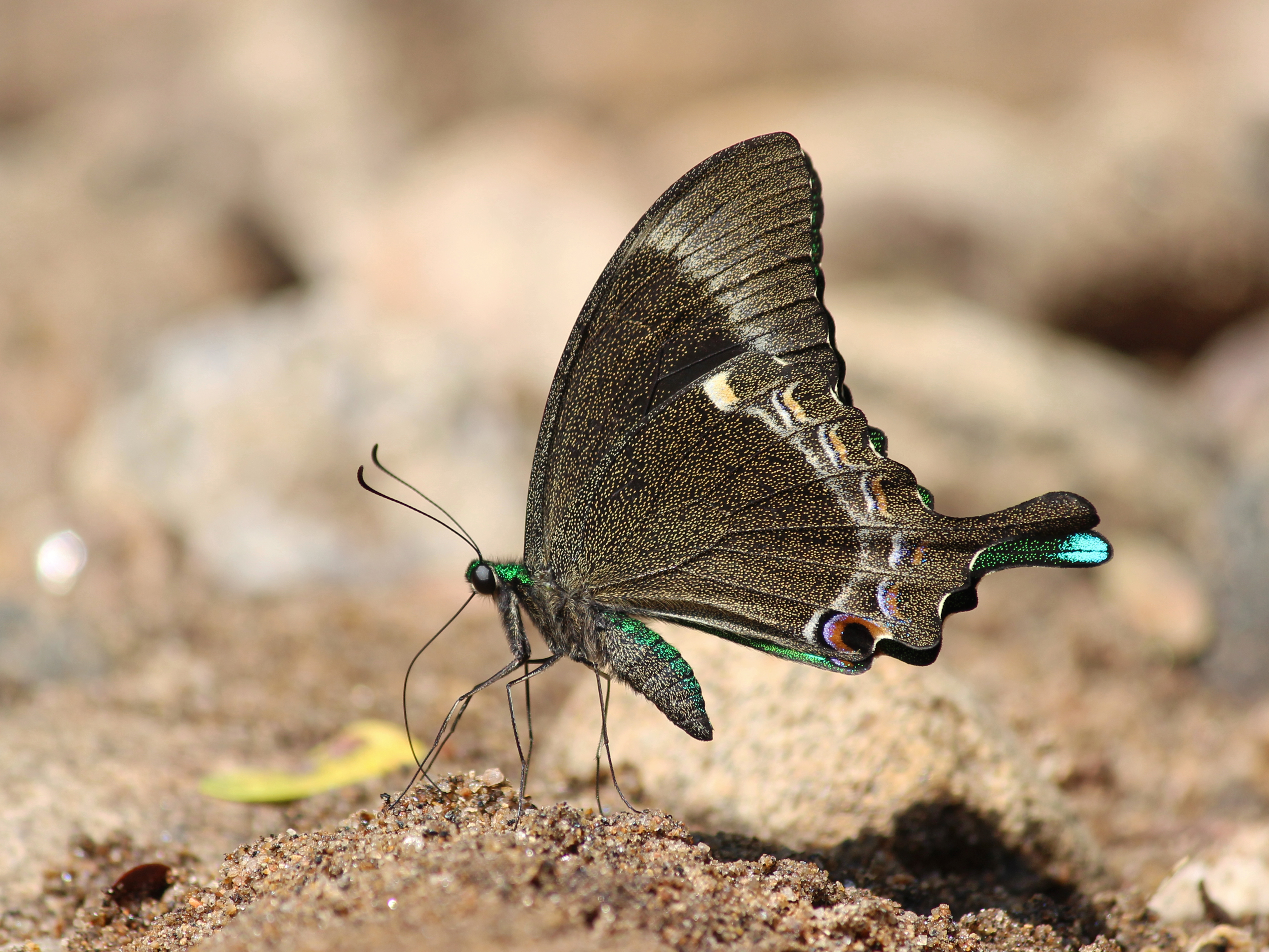 Papilio crino in Melagiri